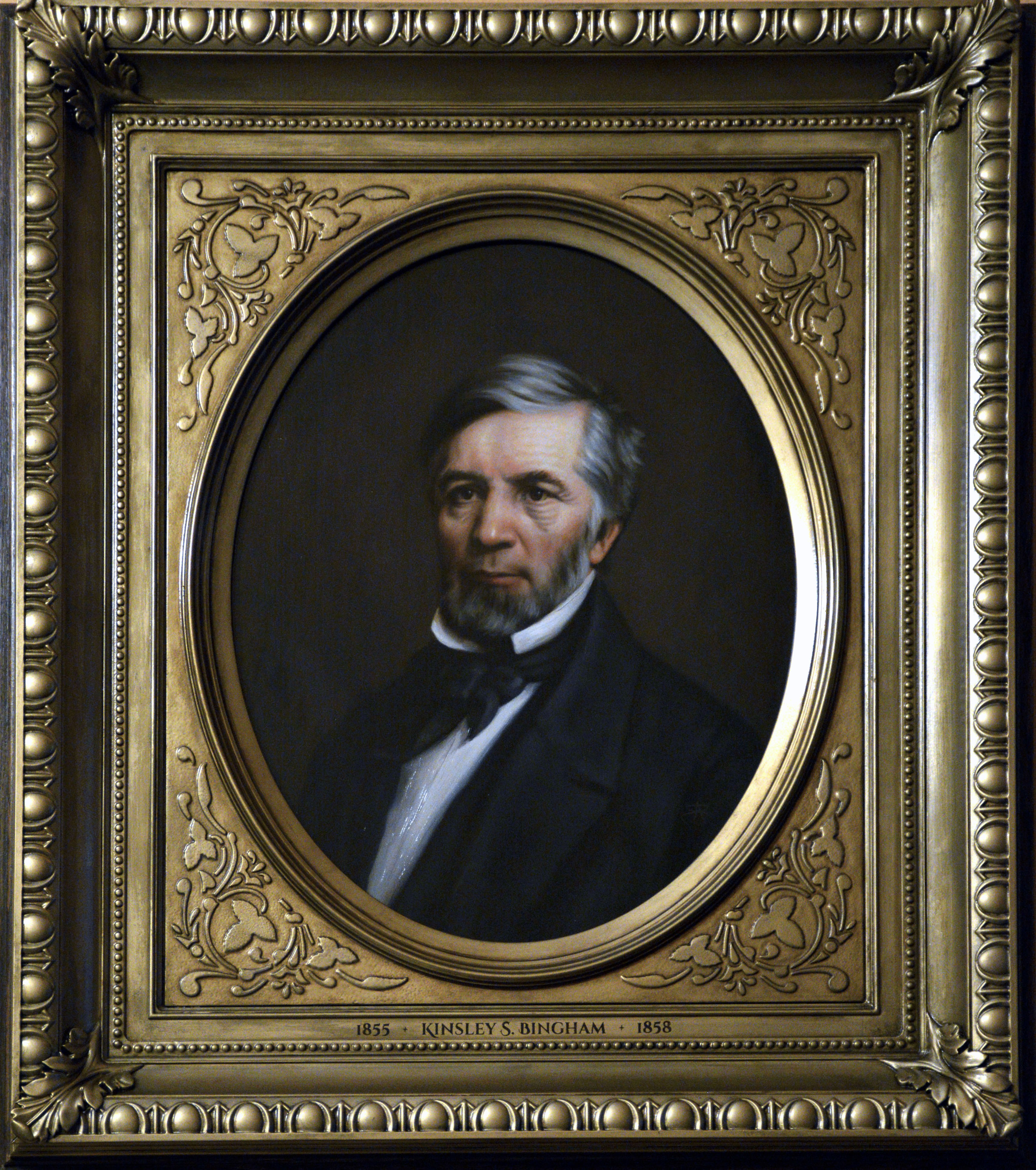 This is a portrait of Kinsley S, Bingham painting by Joshua Adam Risner in 2016.